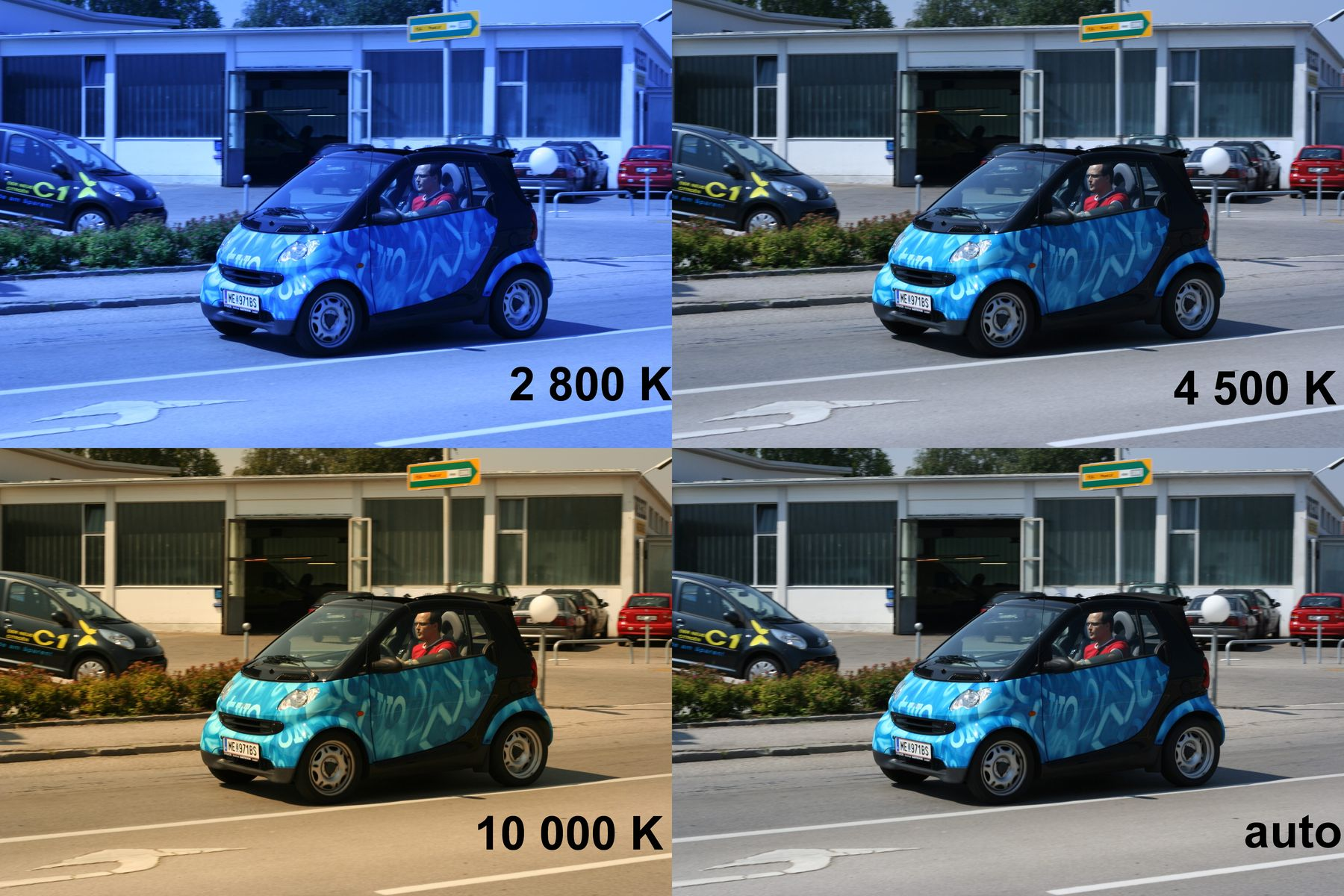 Four times the same picture with different whitebalances, adaped in Canon's RAW Converter and put together with XnView